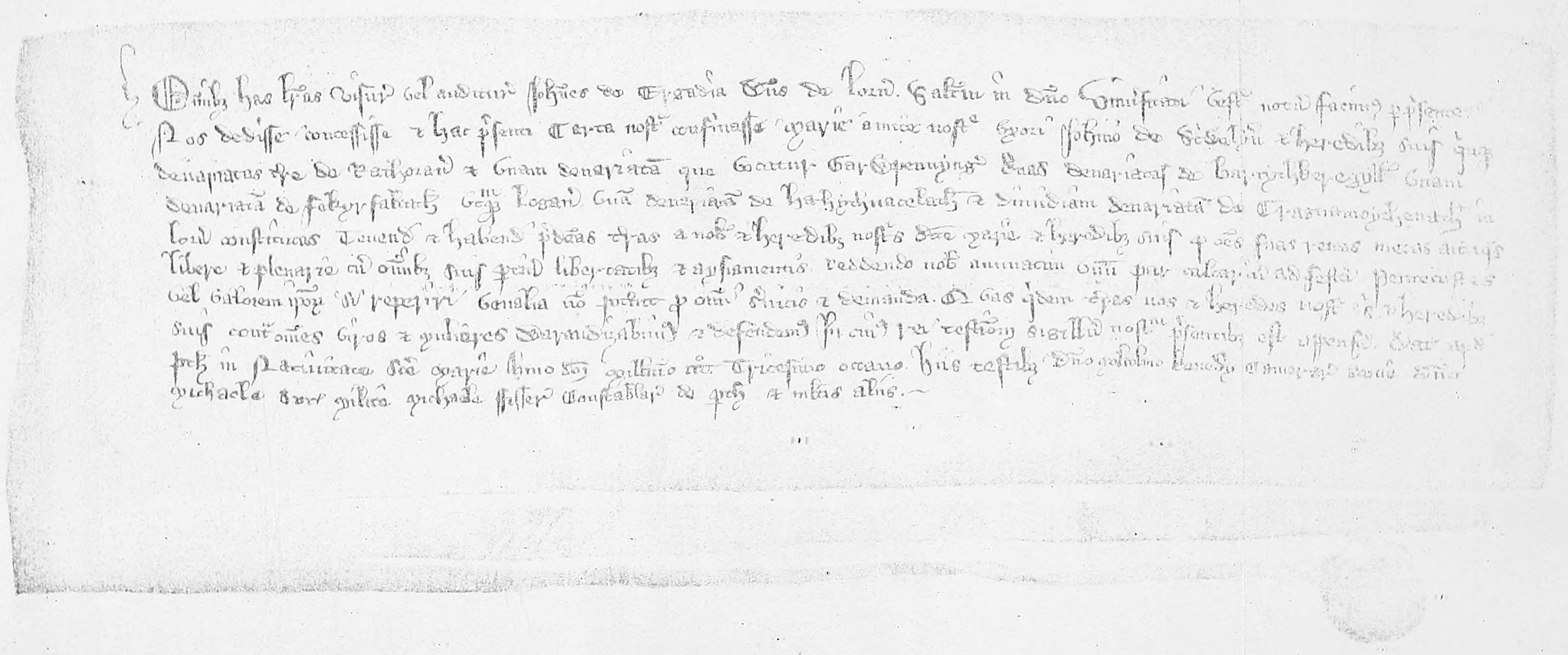 A nineteenth-century facsimile of a charter of John Gallda MacDougall to his father's sister, Mary, wife of John of Stirling, concerning the lands of Rathorane, granted 8 September 1338.